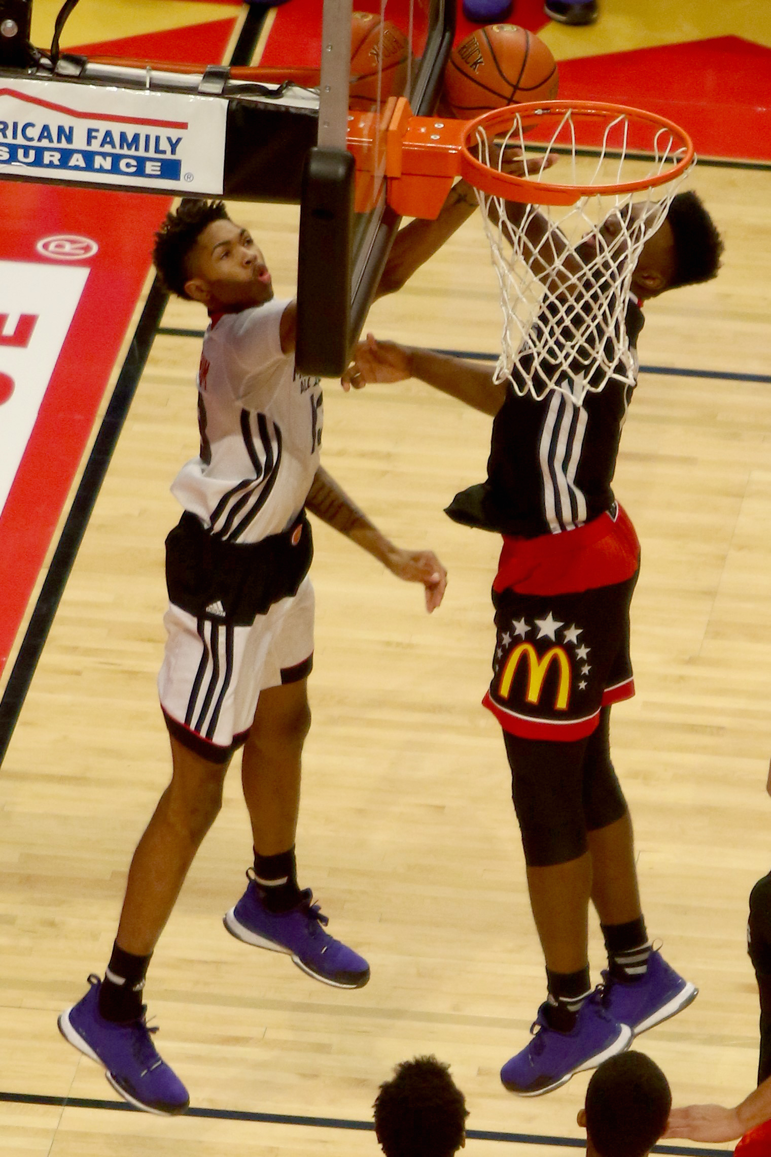 Brandon Ingram gets by Jaylen Brown in the w:2015 McDonald's All-American Boys Game